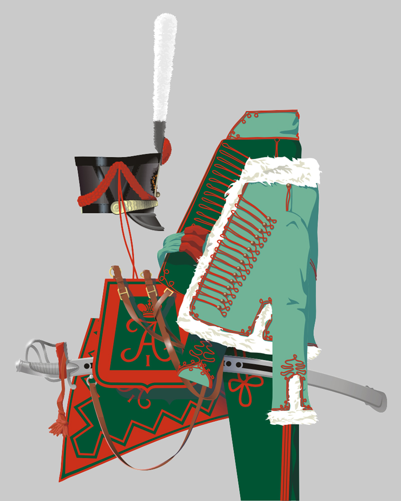 Trooper of Pavlograd Hussar regiment’s full dress: dolman, pelisse, barrel sash, breeches, shako (here of 1812), shabraque, sabretache & sabre. Russian army of 1812